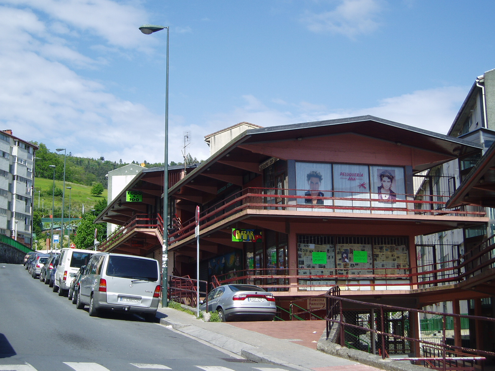 One of the Otxarkoaga's (Bilbao) shopping areas.